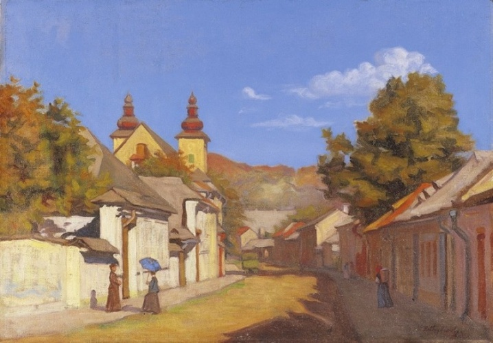 Baia Mare Street details